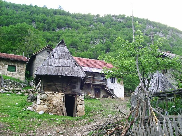 The village of Dubočani near Konjic, Bosnia and Herzegovina